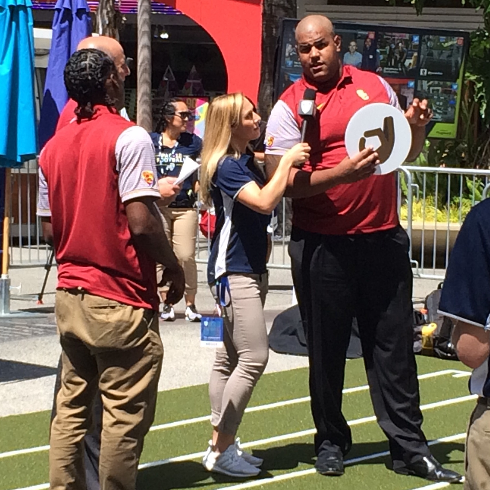 Zach Banner, lineman for the USC Trojans football team, explains a selection to teammate Adoree' Jackson and head coach Clay Helton at the 2016 Pac-12 Conference Media Days in Los Angeles.